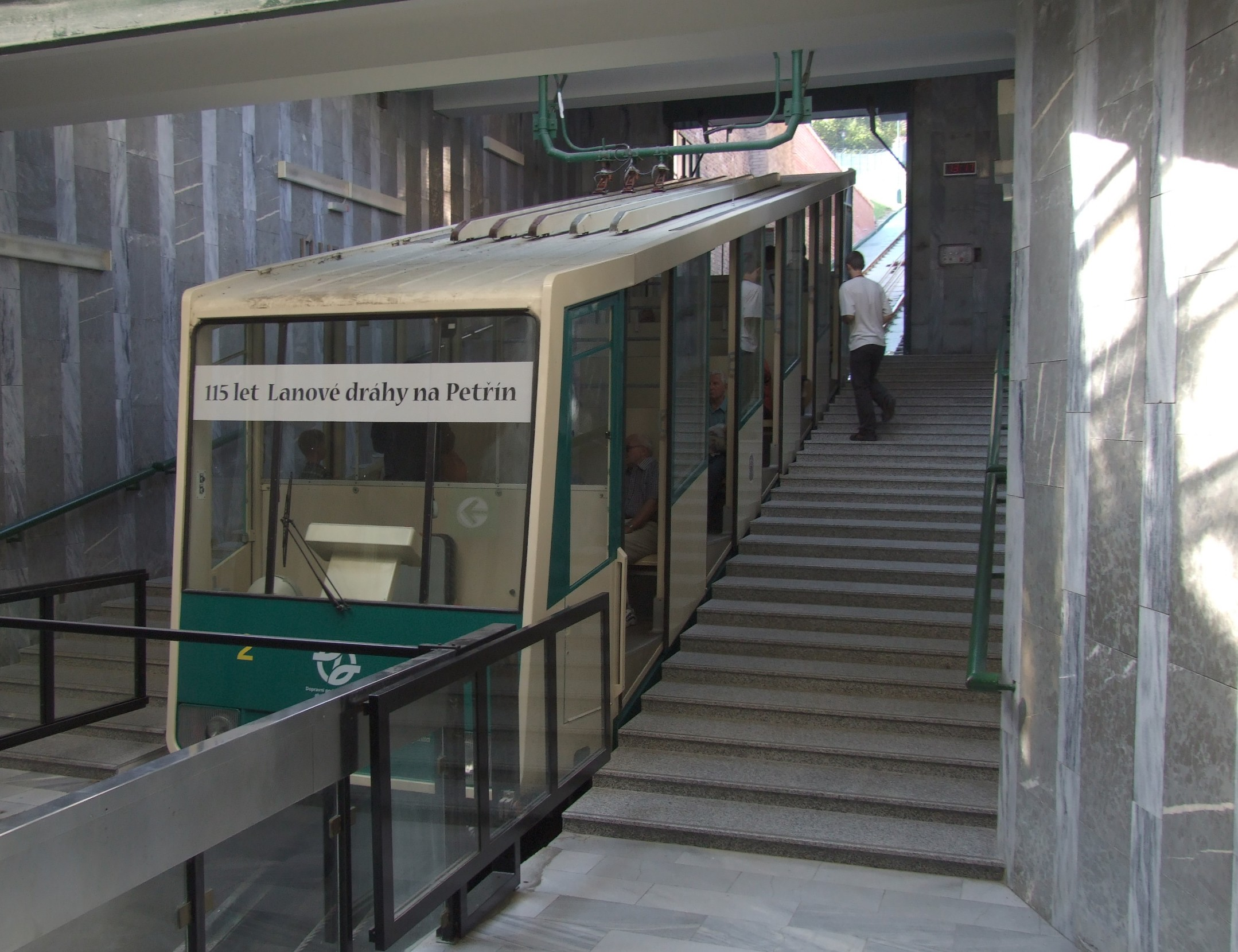 Cable car line at Petrin in Prague Wagony kolejki linowej na Petrin w Pradze Author: Mohylek 16:13, 2 November 2006 (UTC)